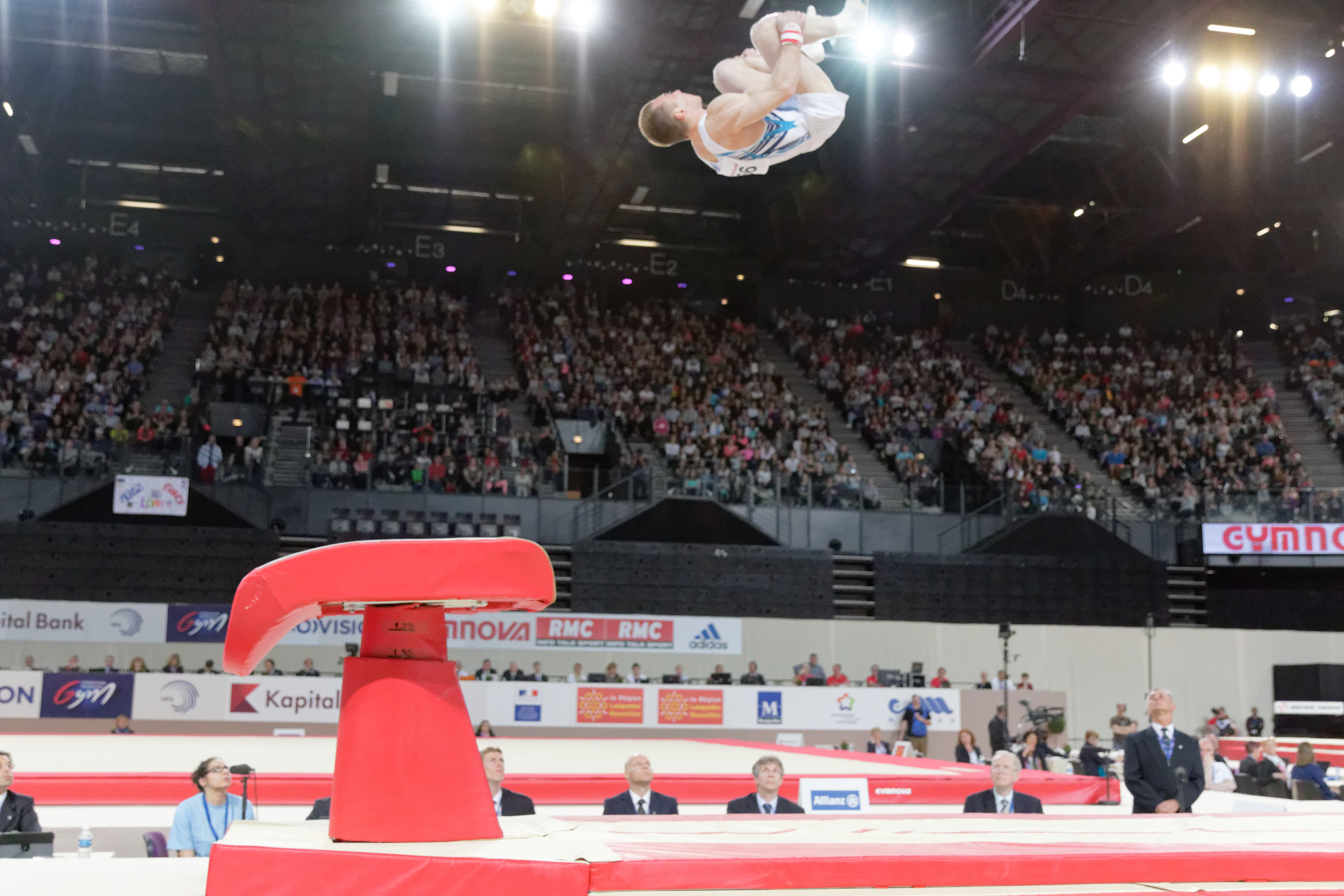 2015 European Artistic Gymnastics Championships. Men's Vault Final.